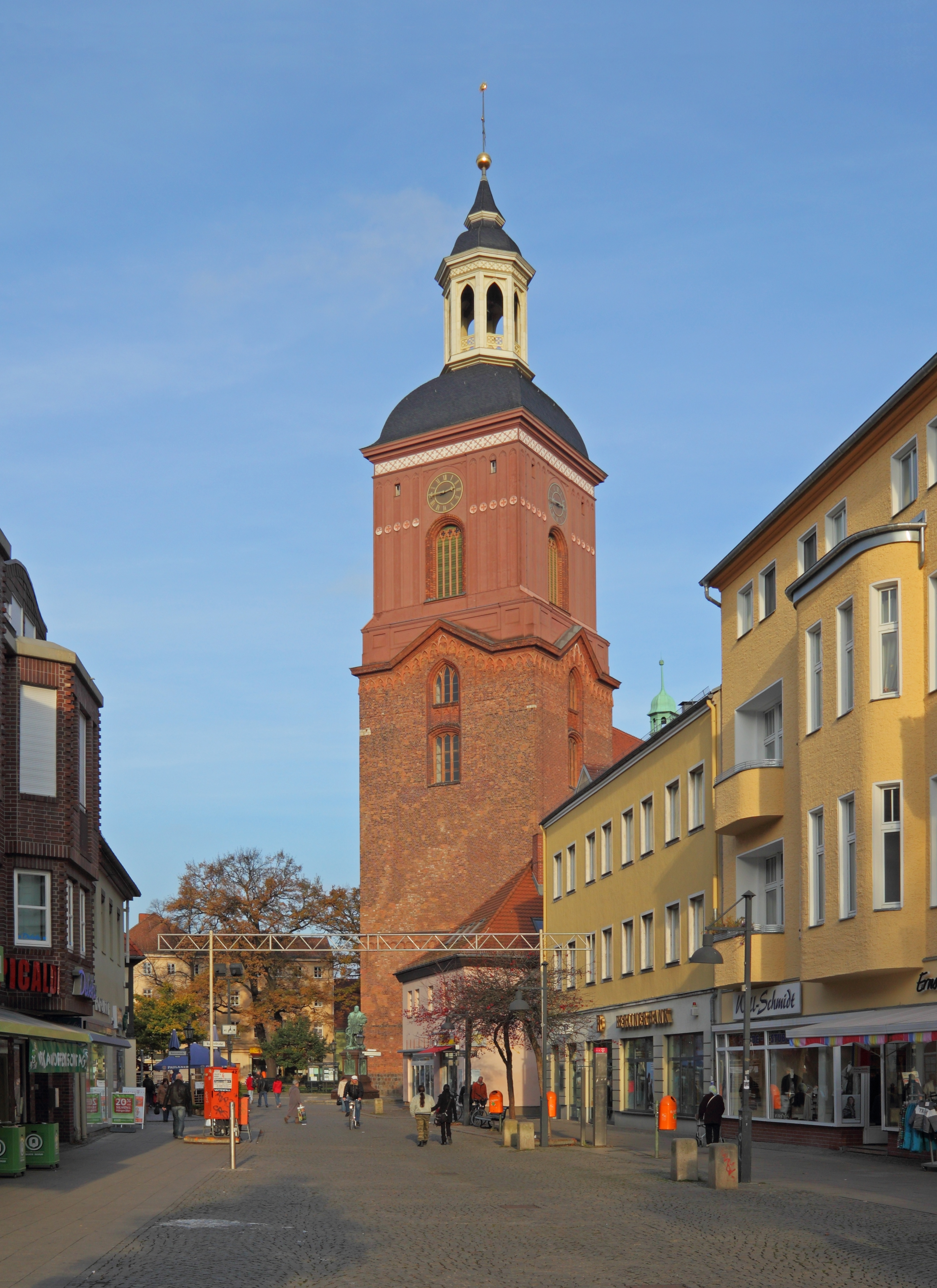 Berlin-Spandau, St. Nicholas Church